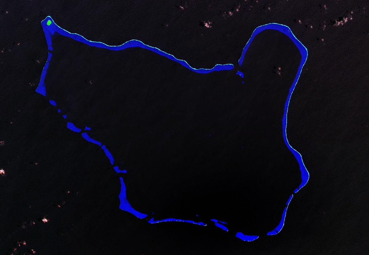 Oroluk Atoll, Yap State, Caroline Islands, Pacific Ocean